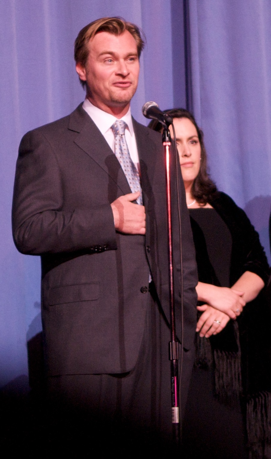 Cropping to only feature Nolan and Thomas